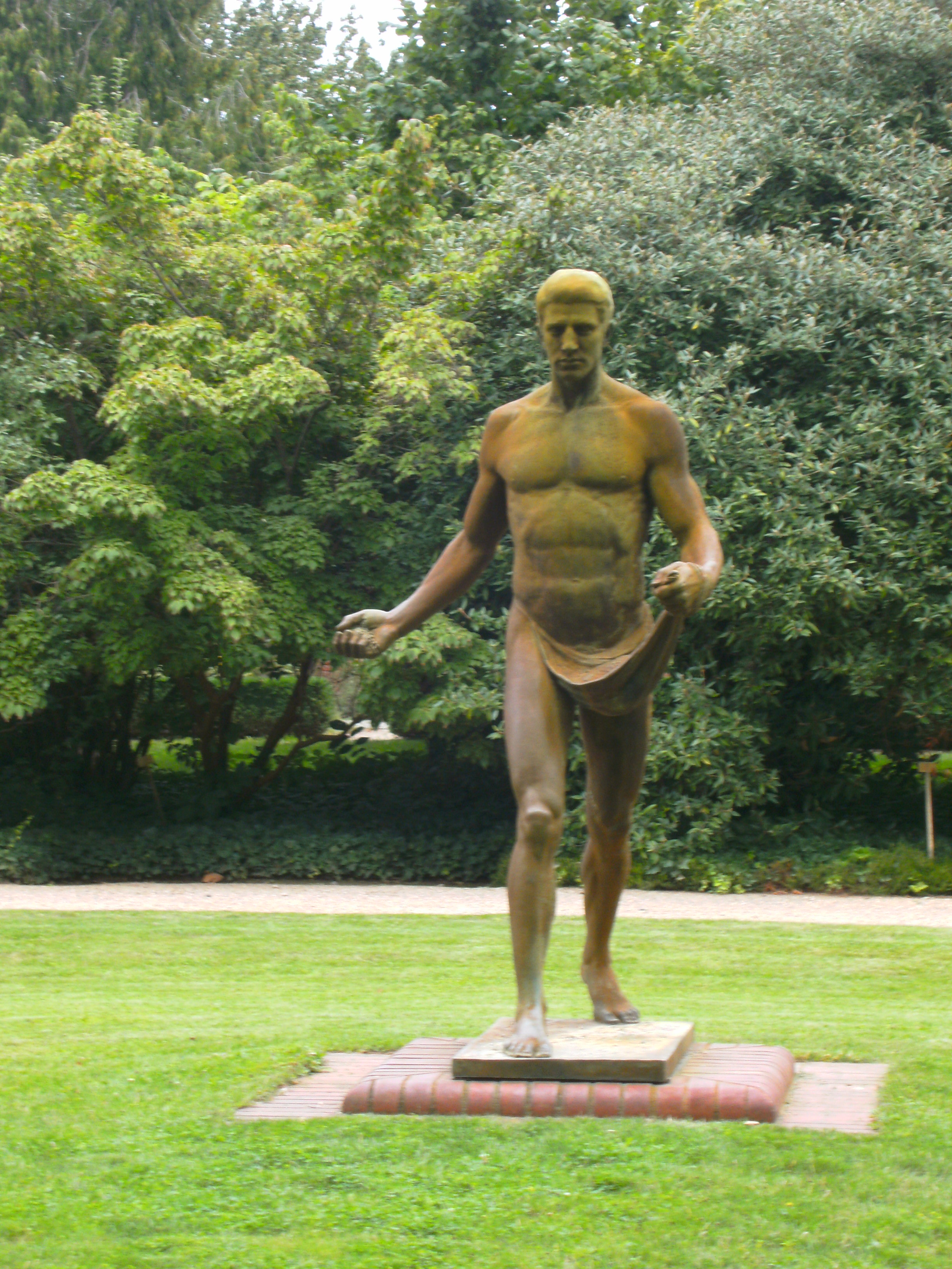 Berlin, Germany, Botanischer Garten: Sculpture Sower by Hermann Joachim Pagels.